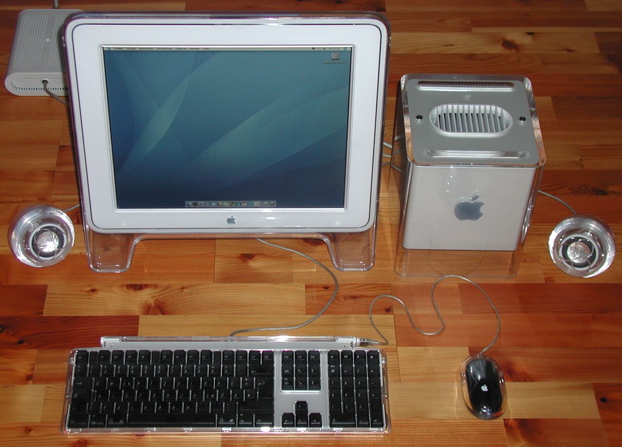 Apple Power Mac G4 Cube. from de.wikipedia.